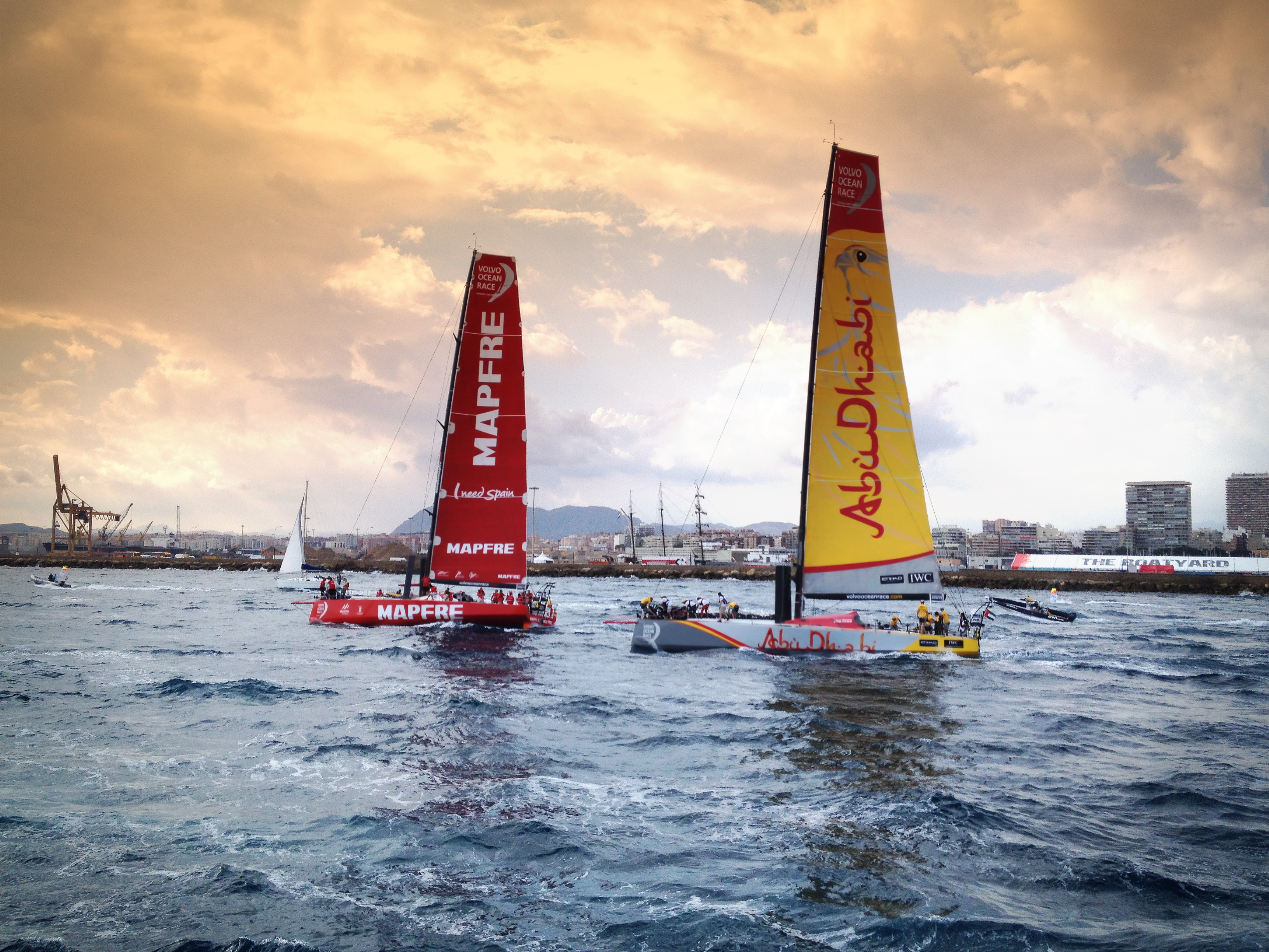 The Volvo Ocean 65 Mapfre & Abu Dhabi at the start of the Volvo Ocean Race 2014-2015